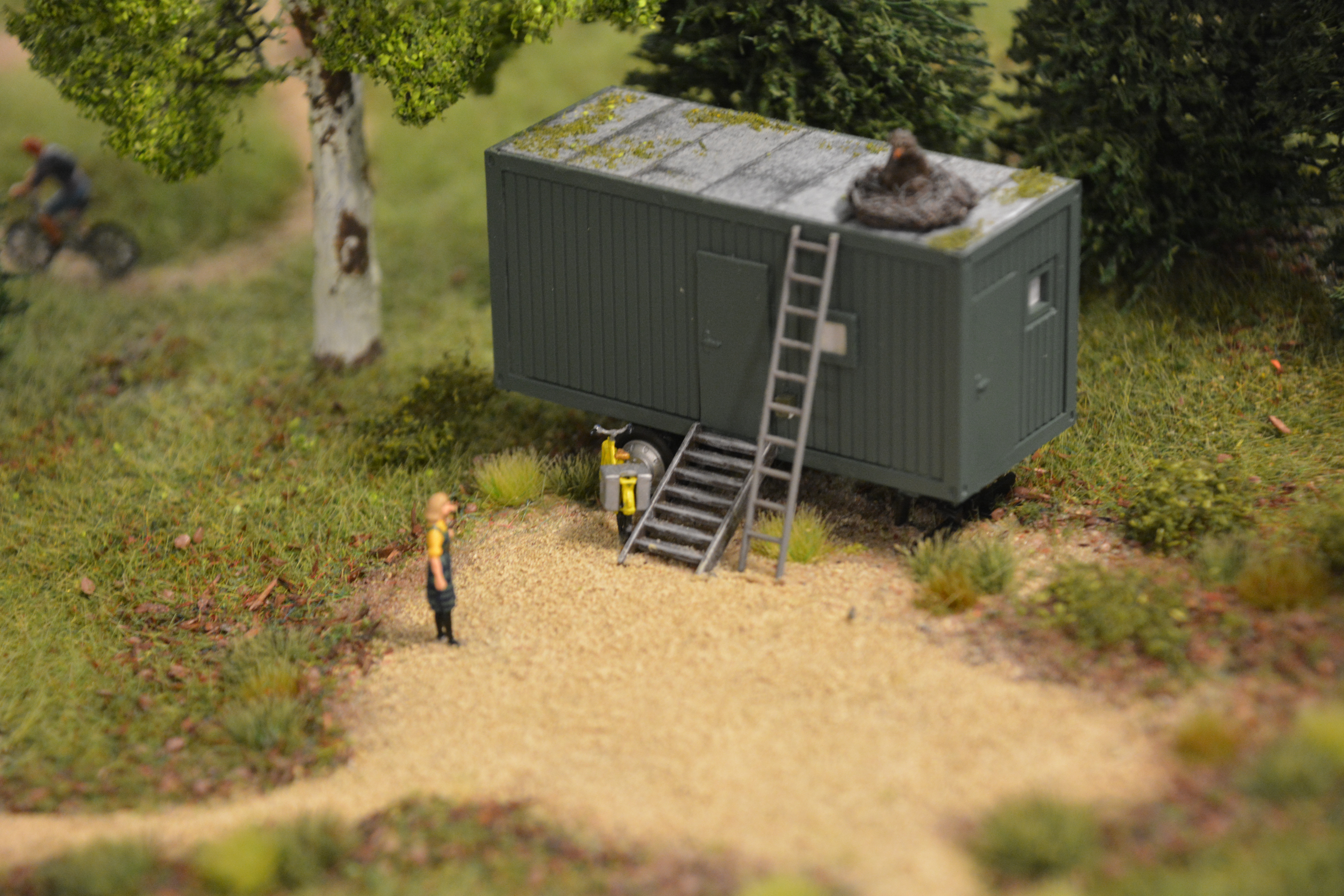 Model in H0 scale of settings for Swedish TV programme "Från A till Ö", Miniature Kingdom, Korsör, Sweden